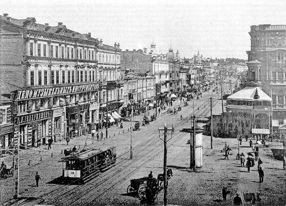 View of Khreshchatyk str. Beginning of the XX century.